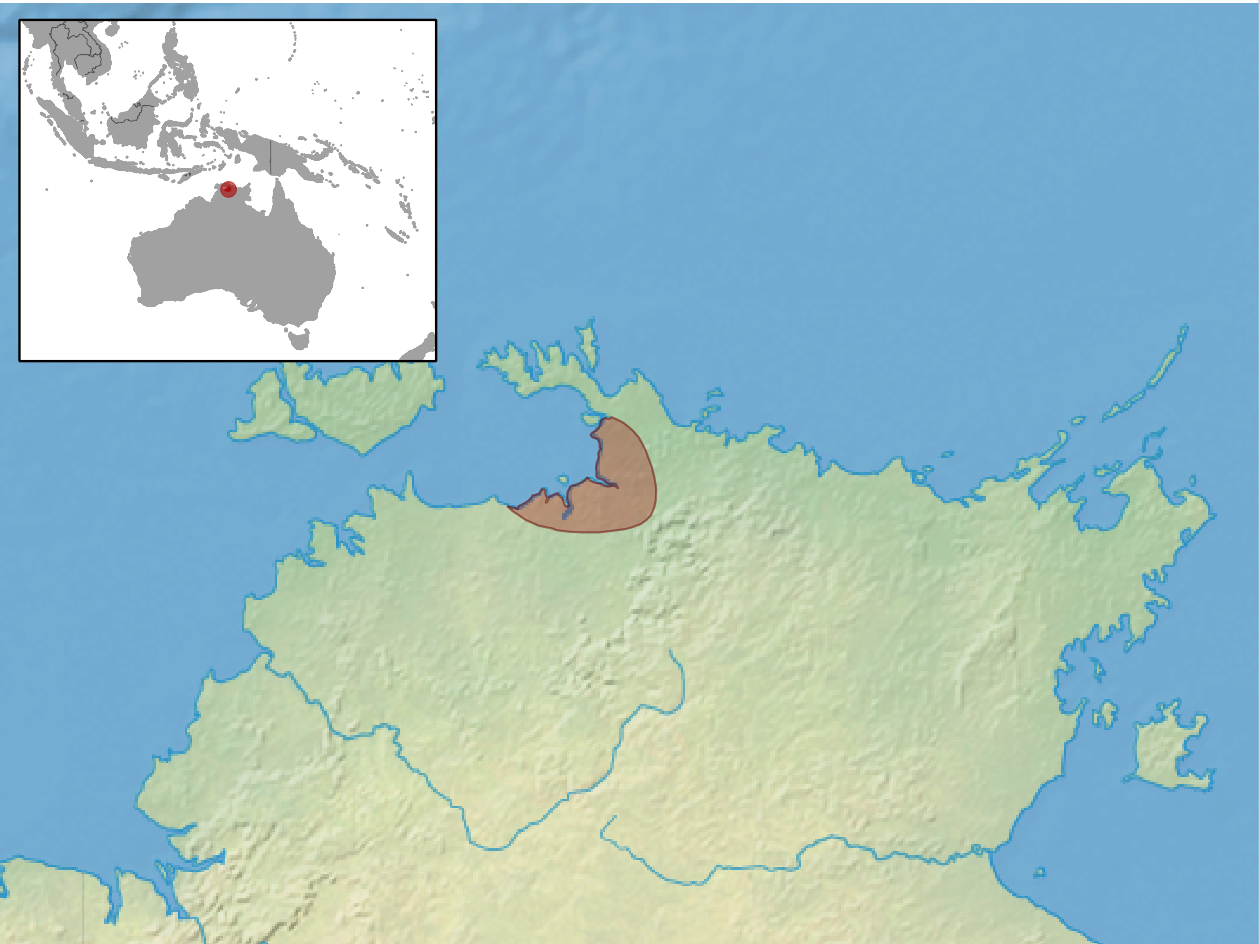 geographic distribution of 'Menetia concinna